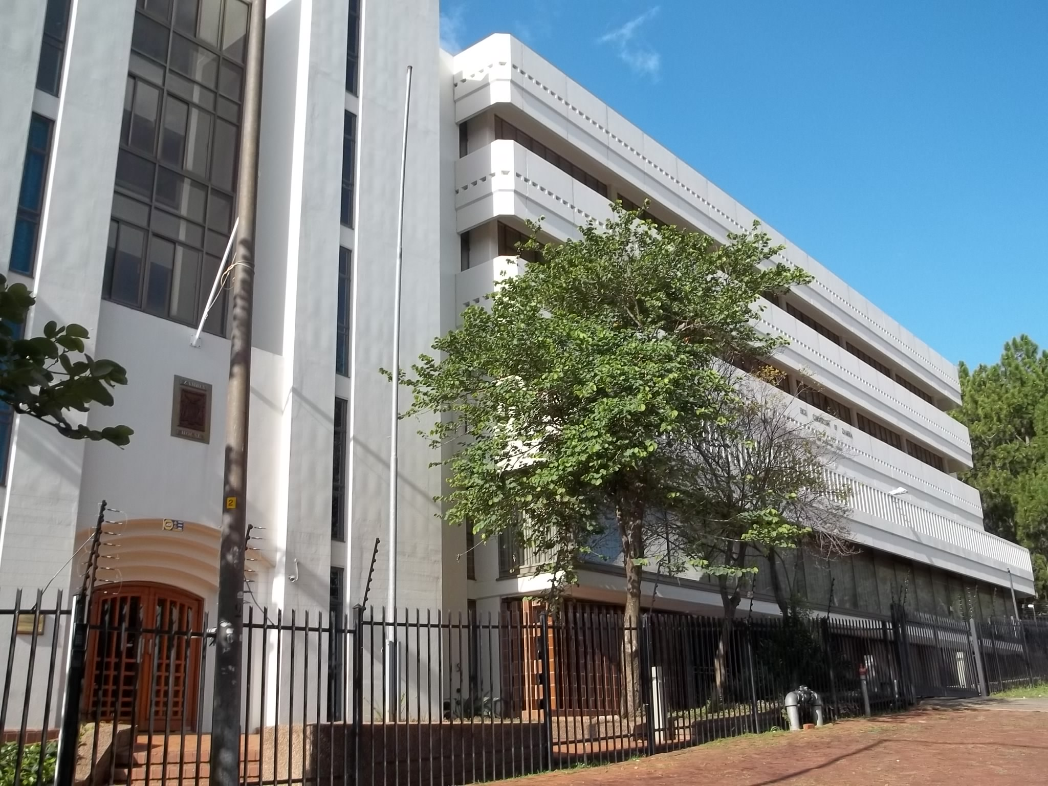 ZB in ZA